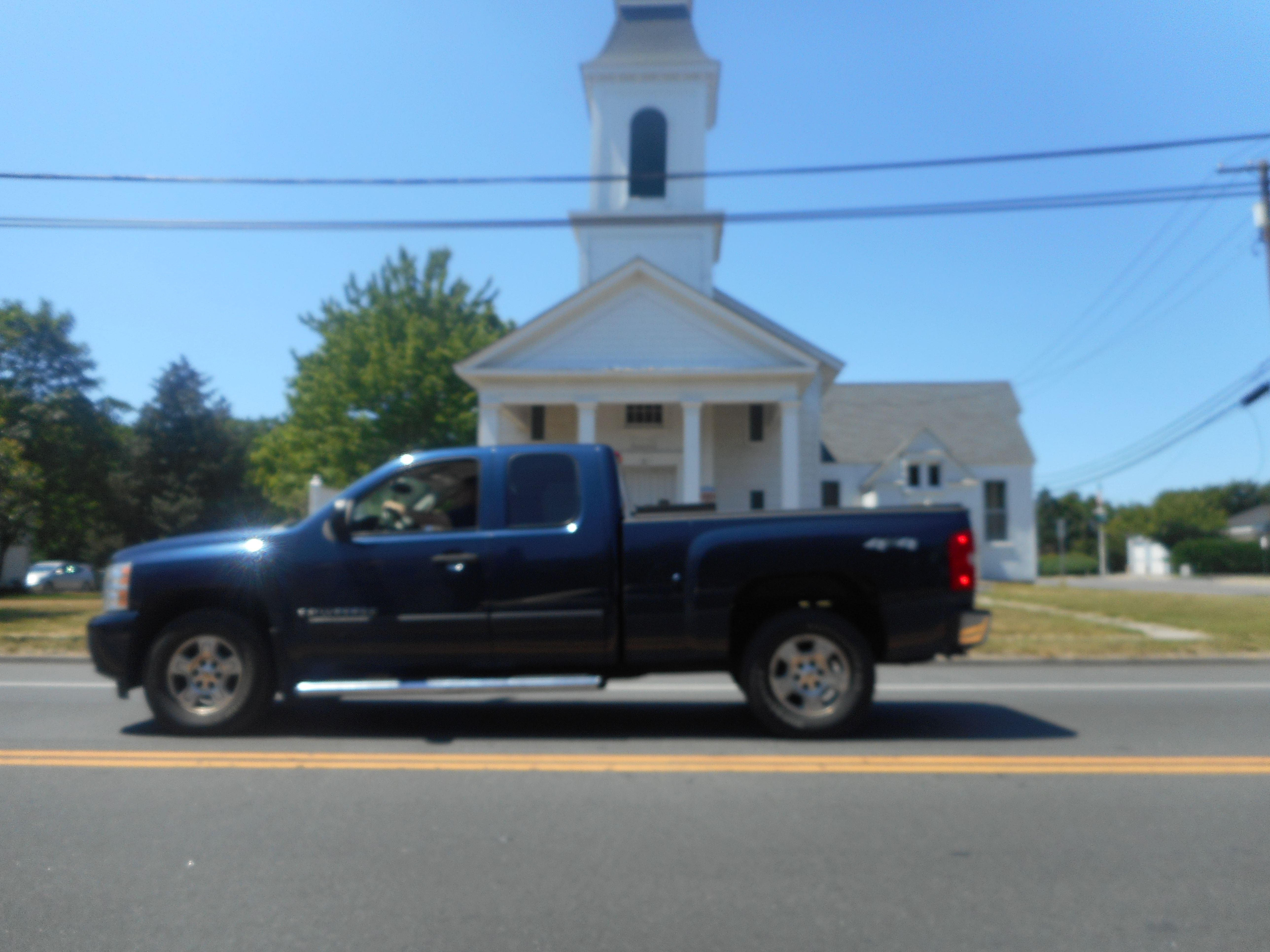 Attempt to take a picture of the NRHP-listed Jamesport Meeting House on New York State Route 25 in Jamesport, New York. This shot was obstructed by an unexpected contemporary Chevrolet Silverado extended cab pickup with four-wheel-drive. Traffic jams are a typical problem of the East End of Long Island. Never believe anyone who tells you that stopping highway improvements will prevent traffic jams.